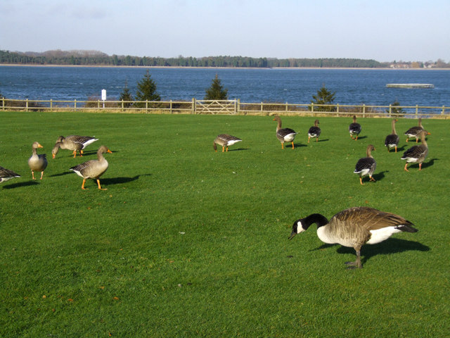 Hanningfield Reservoir Geese in the car park. These run towards you if there is a sniff of any food.